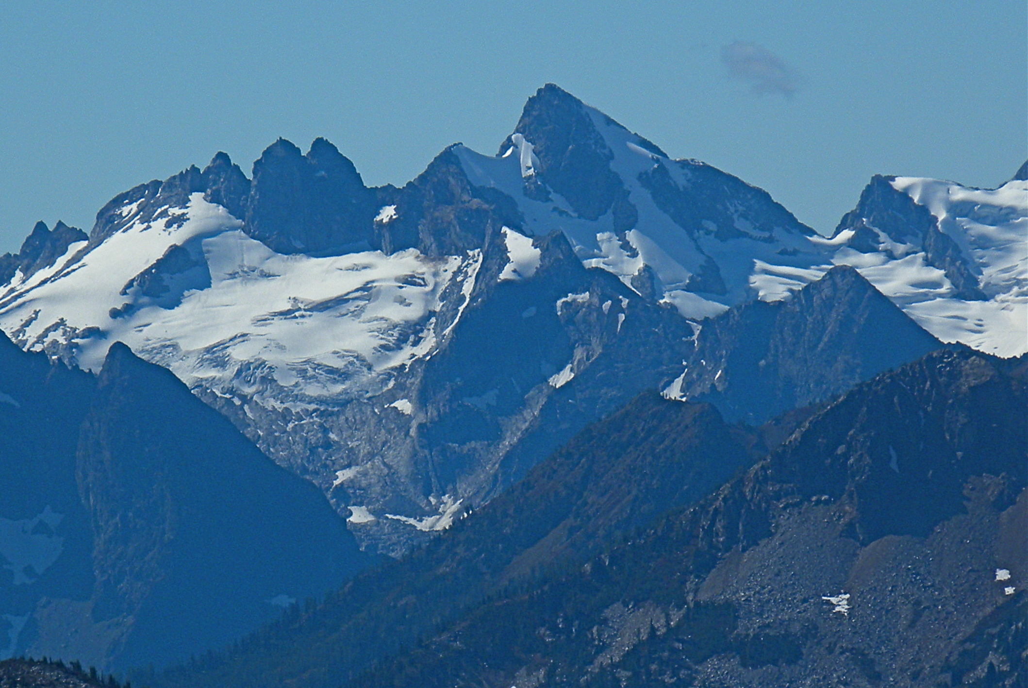 Telephoto of Sinister Peak taken from Maple Pass area. North Cascades of WA